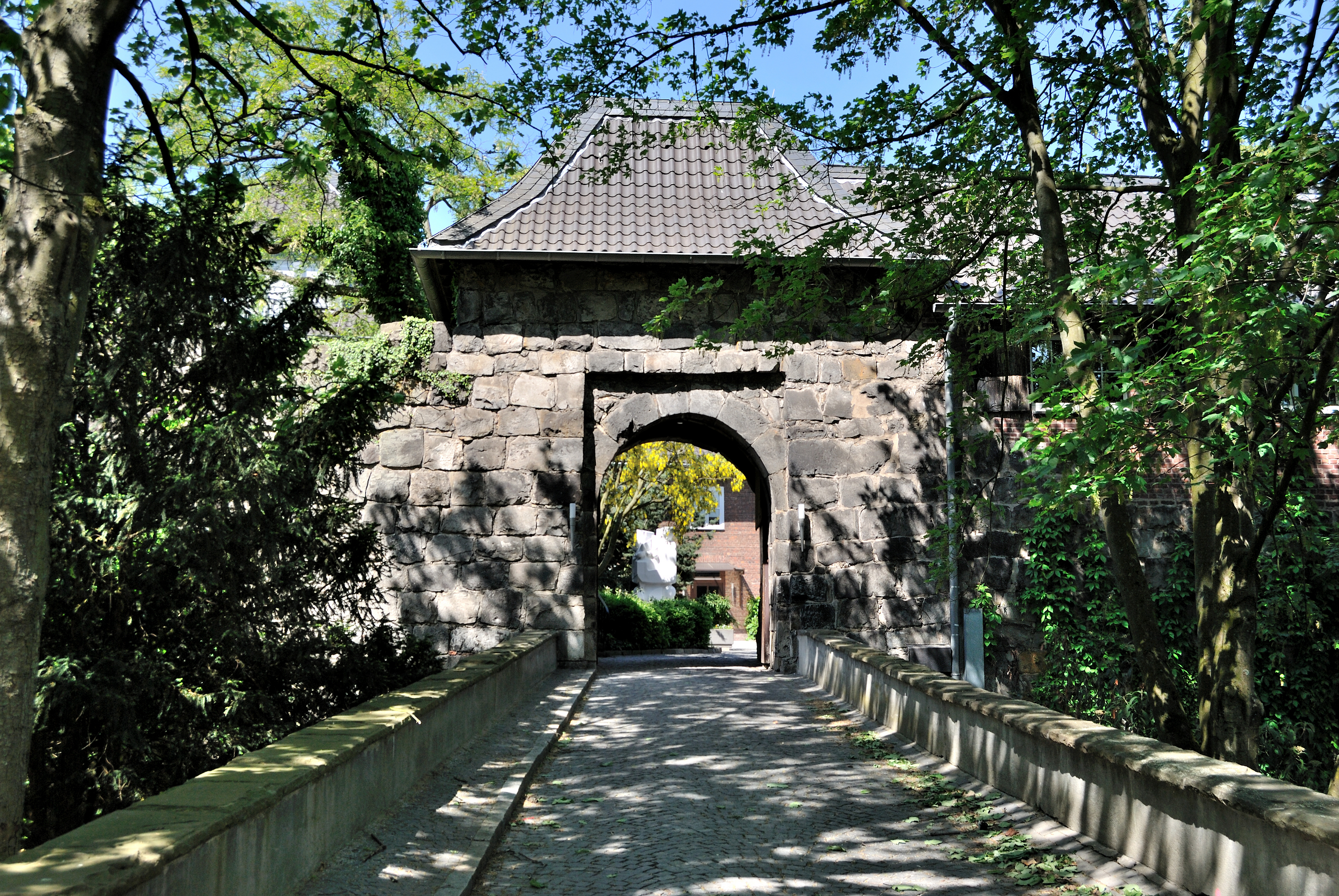 Dinslaken (North Rhine-Westphalia, Germany) – Dinslaken Castle – castle gate Concerning this file, a RAW file still exists. This photograph was taken with a Nikon D3000